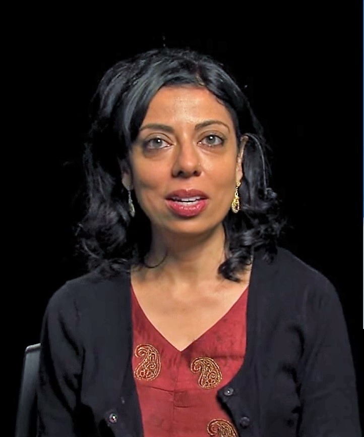 HIV Origins and Epidemiology by Monica Gandhi HIV Origins and Epidemiology Monica Gandhi M.D., MPH Professor of Medicine and Education Director, HIV/AIDS Division University of California, San Francisco (UCSF), USA